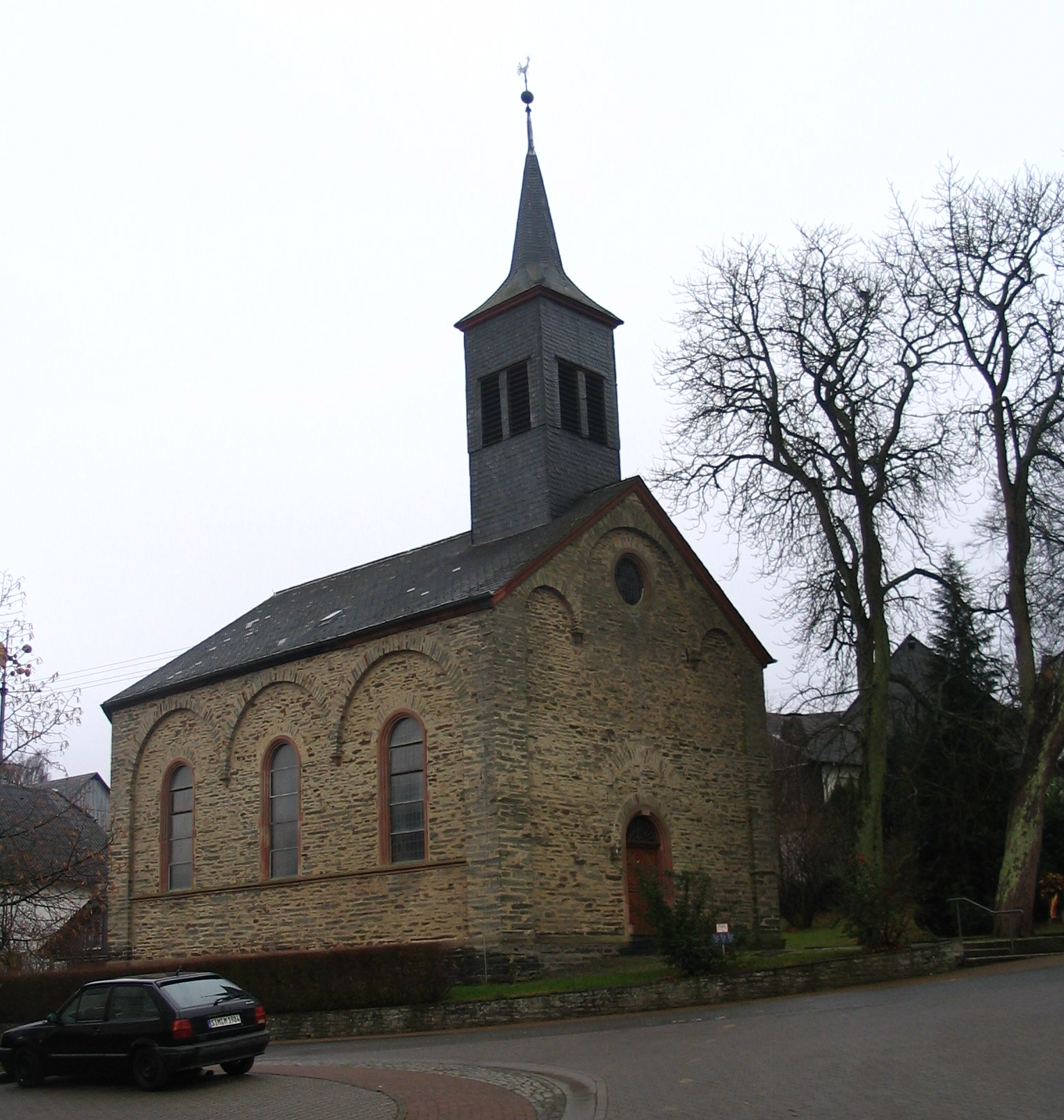 Church of Leideneck in the Hunsrück area, Germany